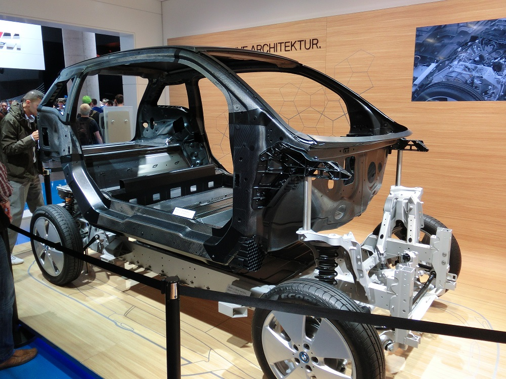 Modell showing the technic of the BMW i3. You can see carbon-fiber-reinforced plastic bodywork and the chassis made by aluminium. The bodywork is lifted from the chassis. The photo was taken at the IAA autoshow in Frankfurt in 2013.